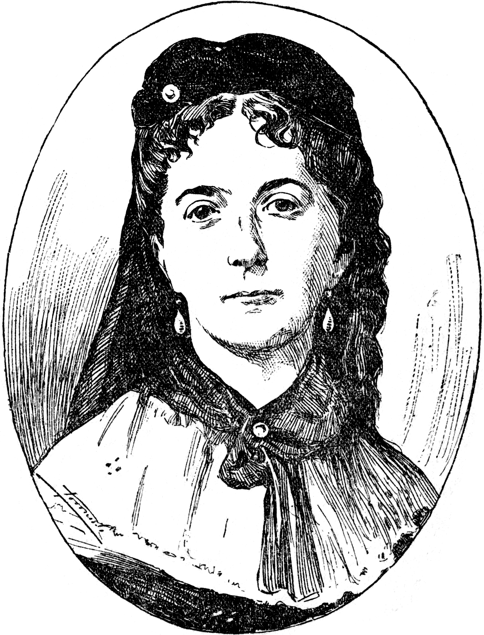 Clara de Hirsch newpaper portrait